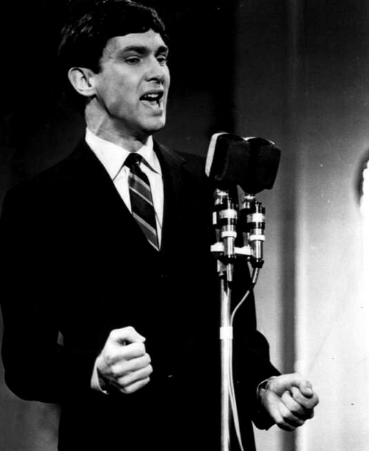 Publicity photo of singer Gene Pitney.